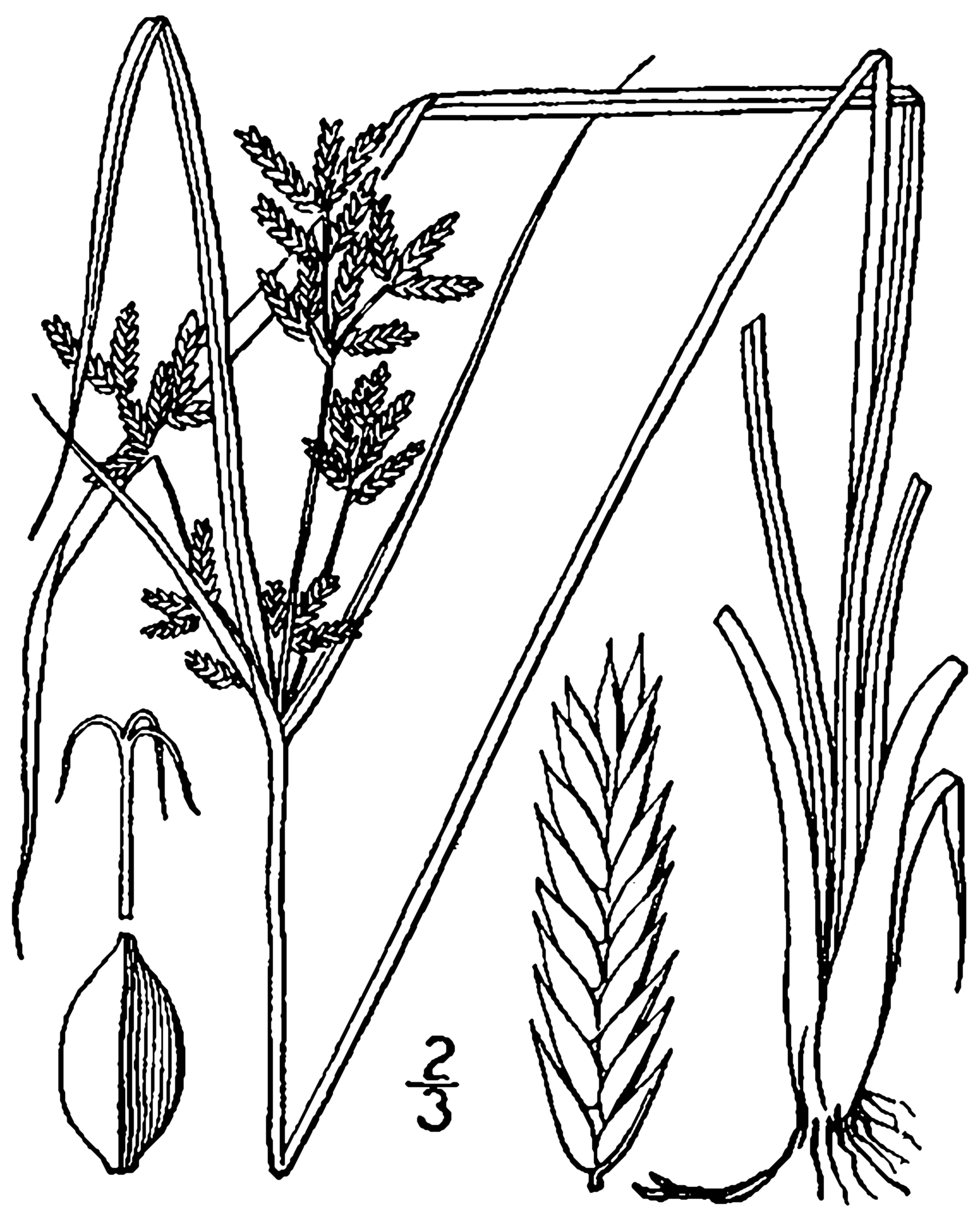 Cyperus dentatus Torr. - toothed flatsedge